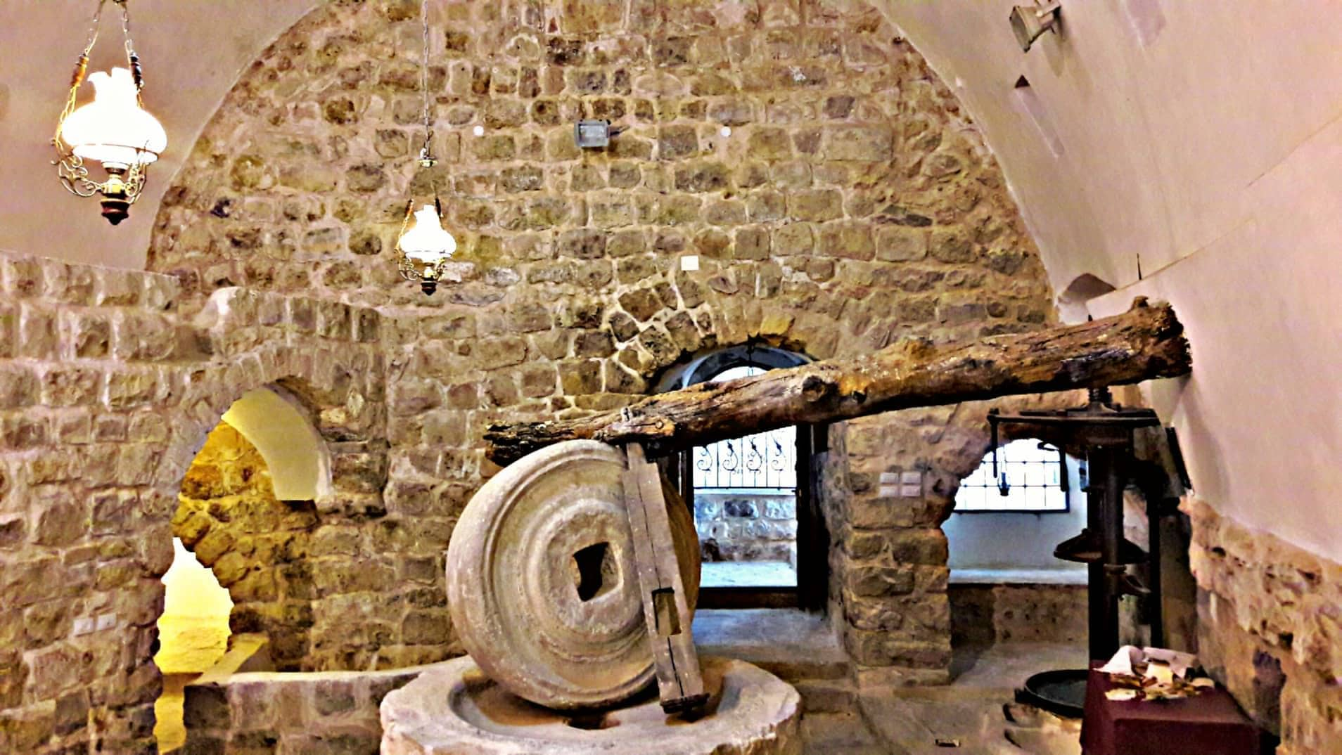 Olive Presses located in the old town of Khalil al-Rahman